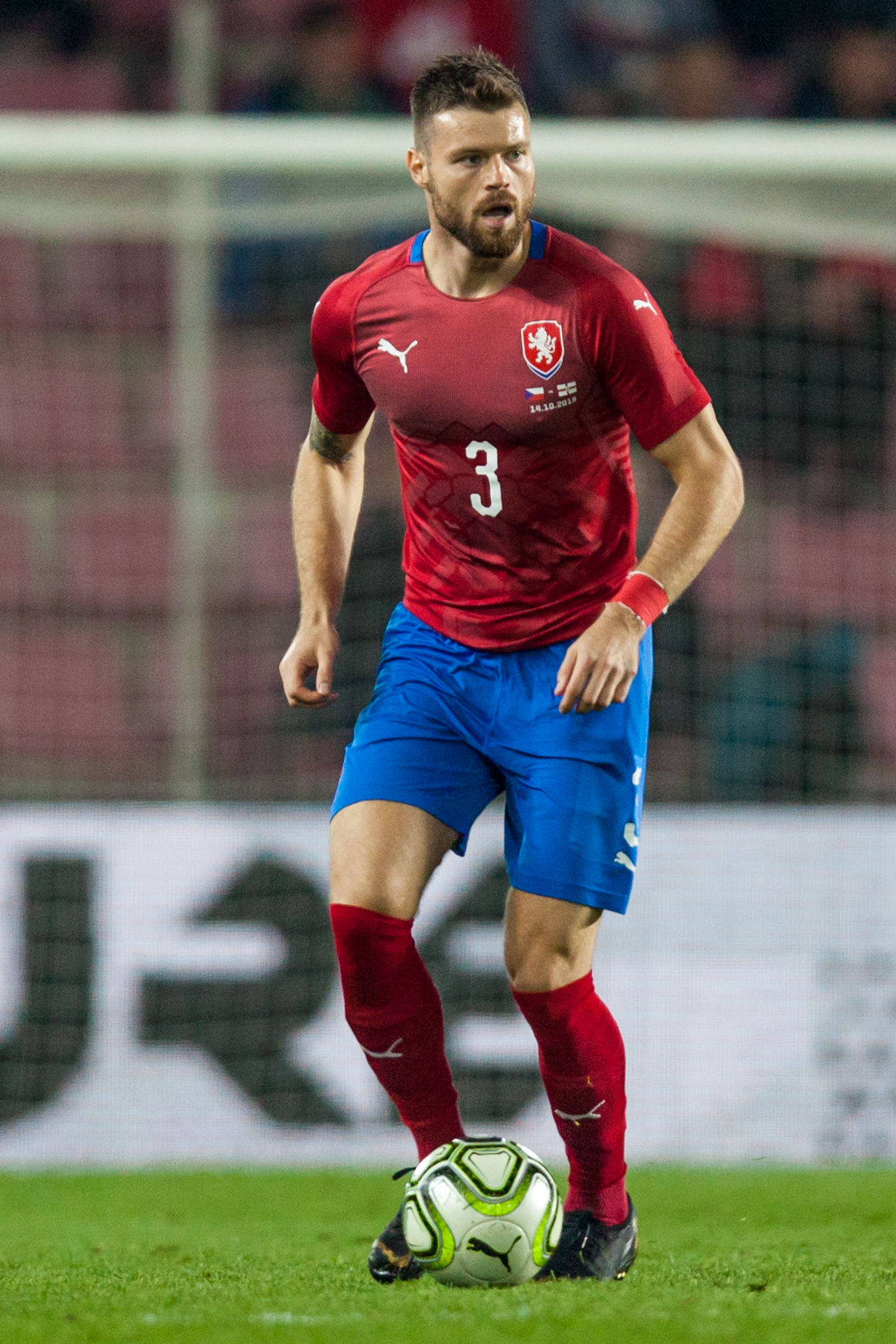 Ondřej Čelůstka in an international friendly match between Czech Republic and Northern Ireland (2:3), Stadion Letná (Prague) 2019-10-14 The making of this work was supported by Wikimedia Austria. For other files made with the support of Wikimedia Austria, please see the category Supported by Wikimedia Österreich. Personality rights warningAlthough this work is freely licensed or in the public domain, the person(s) shown may have rights that legally restrict certain re-uses unless those depicted consent to such uses. In these cases, a model release or other evidence of consent could protect you from infringement claims.